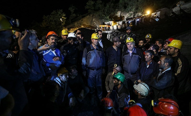 An explosion occurred in the coal mine Yurt, Iran, which trapped and killed innocent workers.